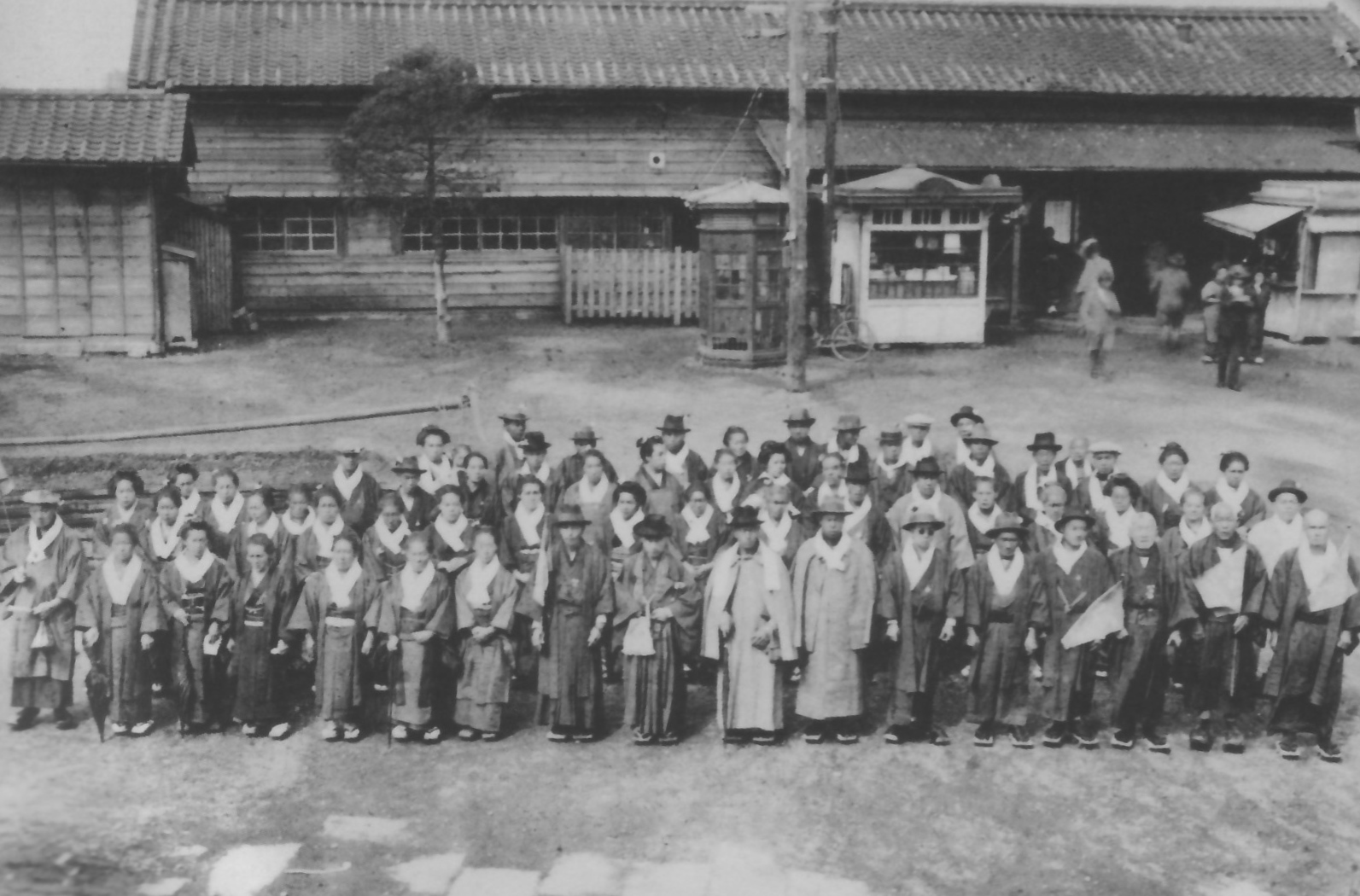 A commemorative photo taken in front of Kawaguchi Station in Saitama Prefecture during the Taisho period (1911-1925)